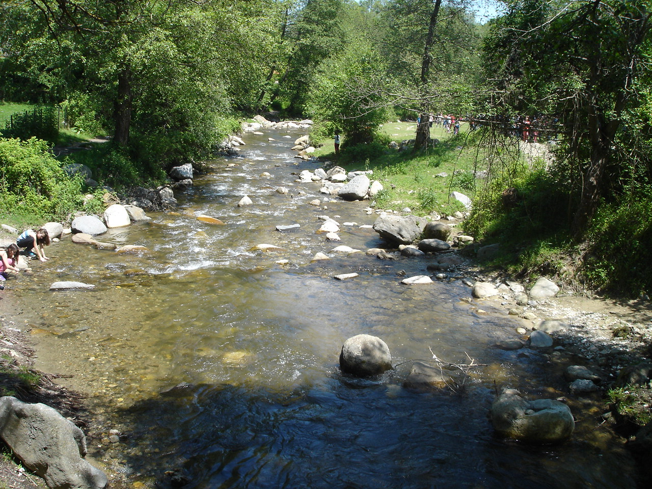 Markova River, Macedonia